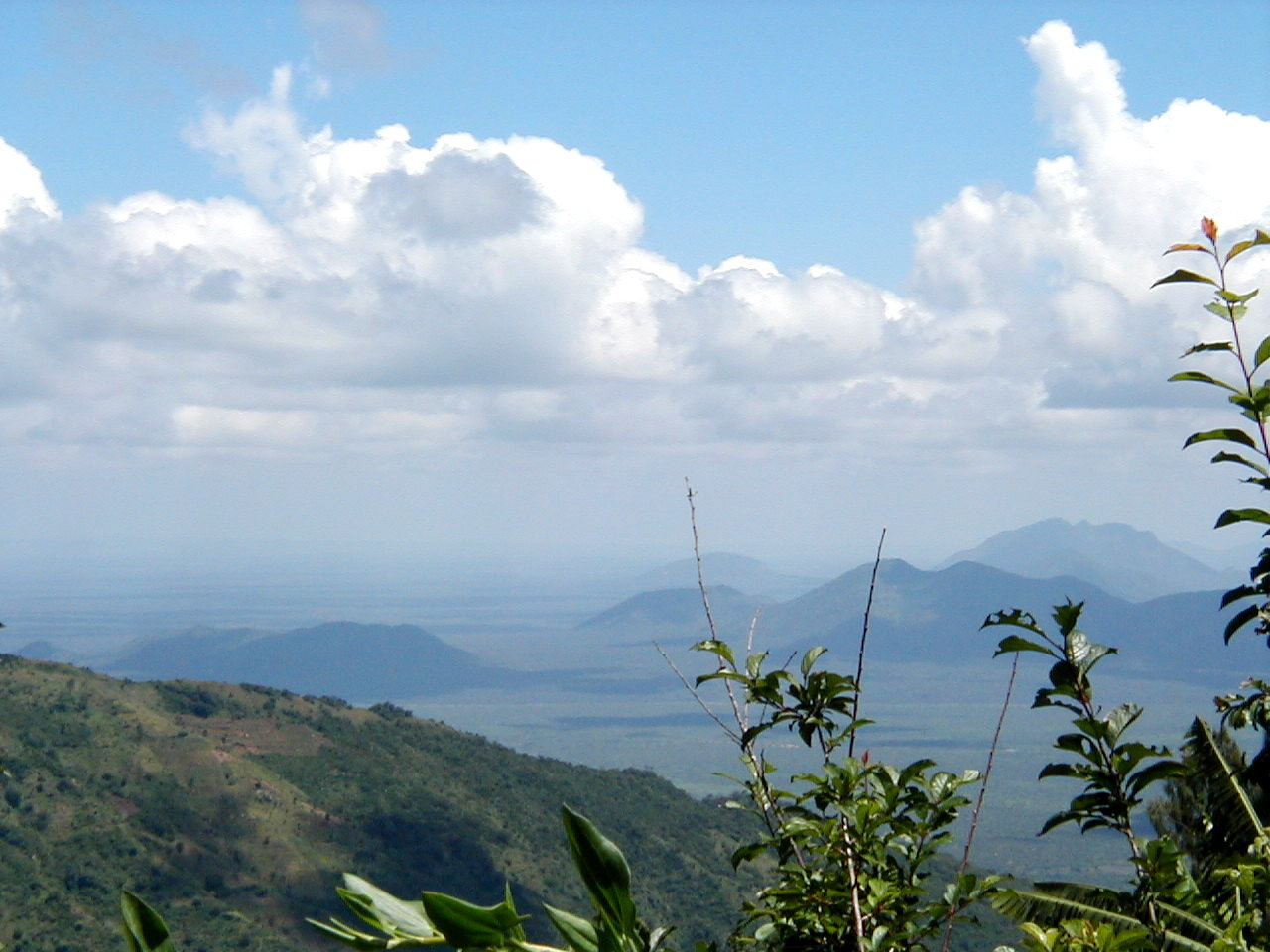 North Pare Mountains, view to the east from the village of Kilomeni. Taken January 2007 by C rocca854 22:28, 9 November 2007 (UTC)